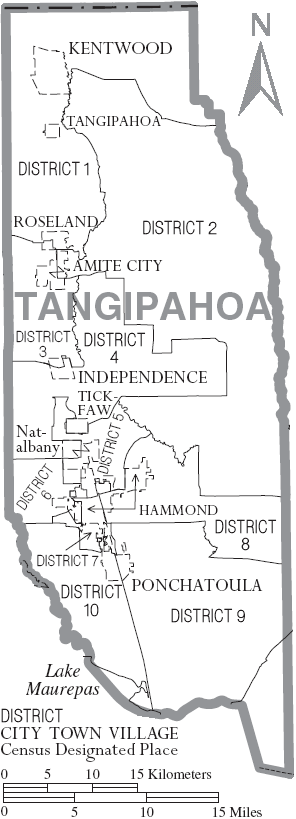 Map of Tangipahoa Parish, Louisiana, United States with municipal and district boundaries